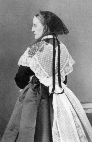 Grand Duchess Maria Nikolaievna, Duchess of Leuchtenberg